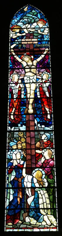 Brechin Cathedral, Brechin, Angus, Scotland - stained glass: the crucifixion (1902, Henry Holiday)